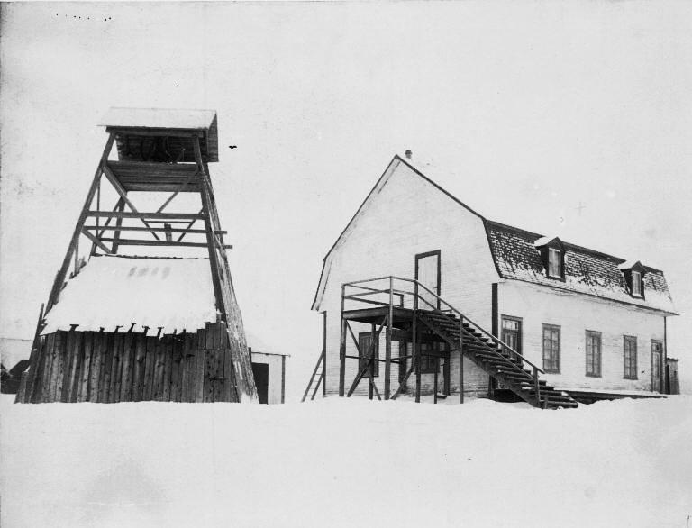 Photograph, St. Emile Chapel, Wexford, QC, about 1890, Silver salts on paper mounted on card - Albumen process - 18.7 x 24.2 cm